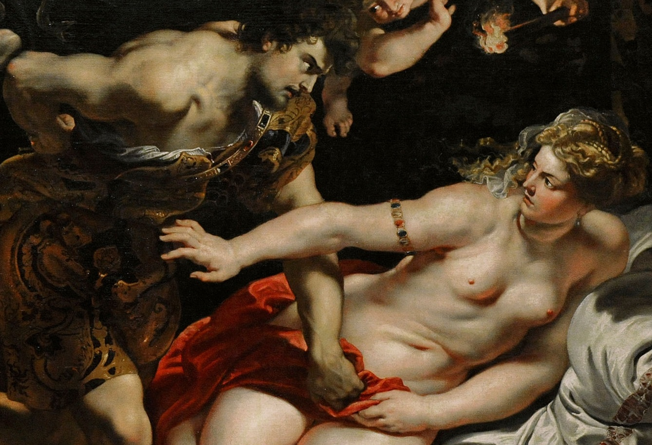 Rubens, Tarquinio e Lucrezia (particolare) - Ermitage